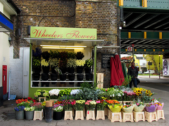 Turnham Green: Flower Seller. The flower seller is situated outside the entrance to the tube station. The bridge over the road is to the west of the station and the park is just visible in the back ground.